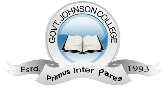 Govt. Johnson College